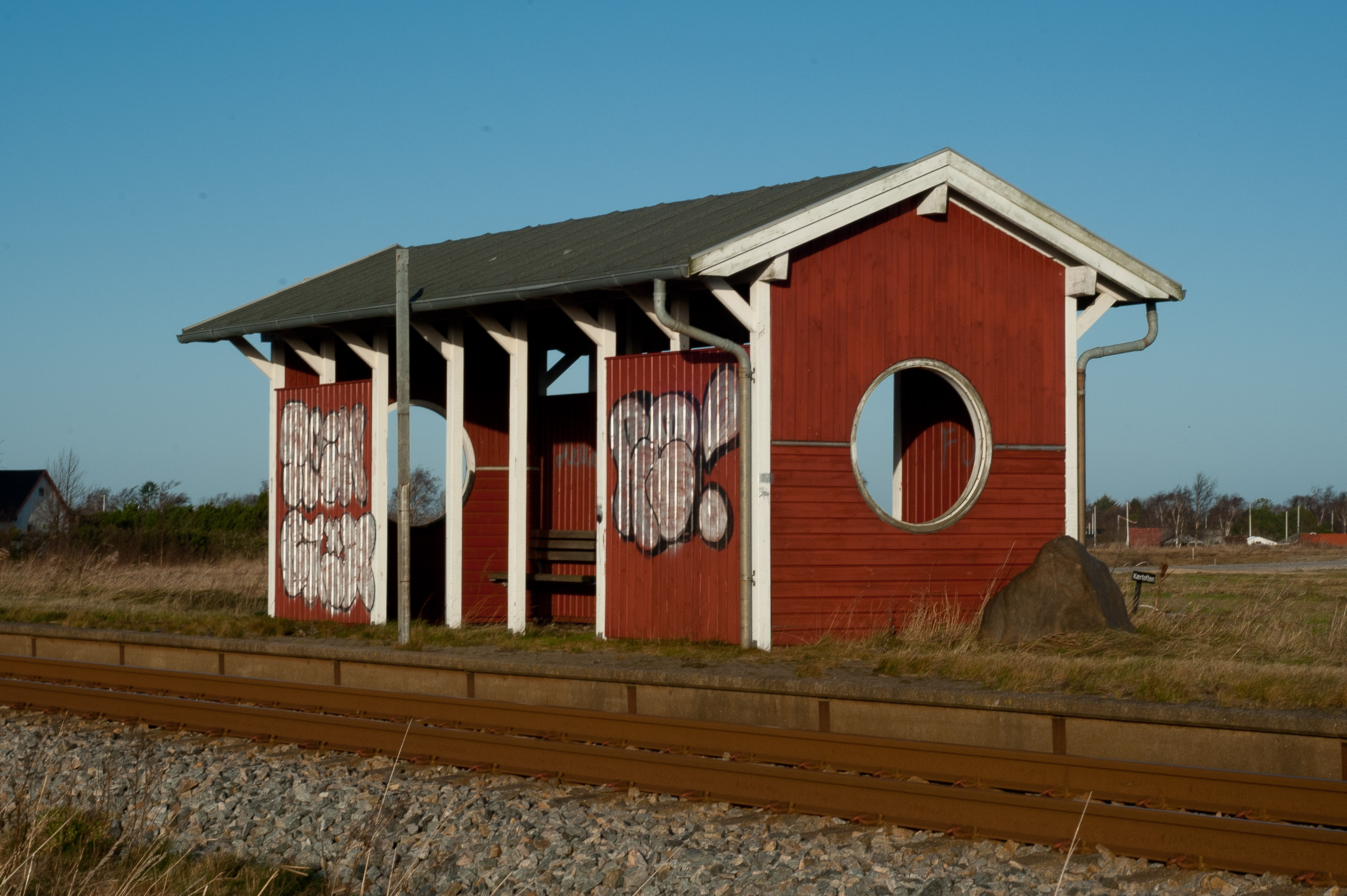 The disbanded Apholmen Halt on Skagens Railway.